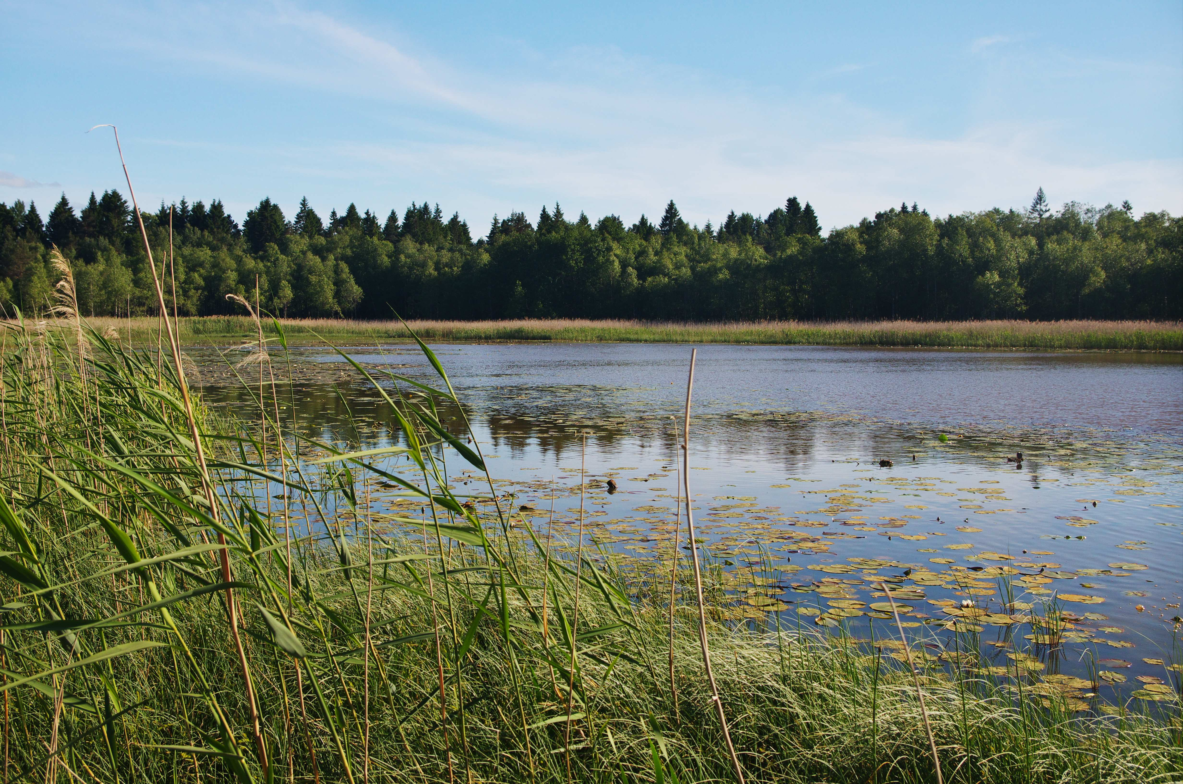 Mårbysjön: Lake in Västergötland Sweden